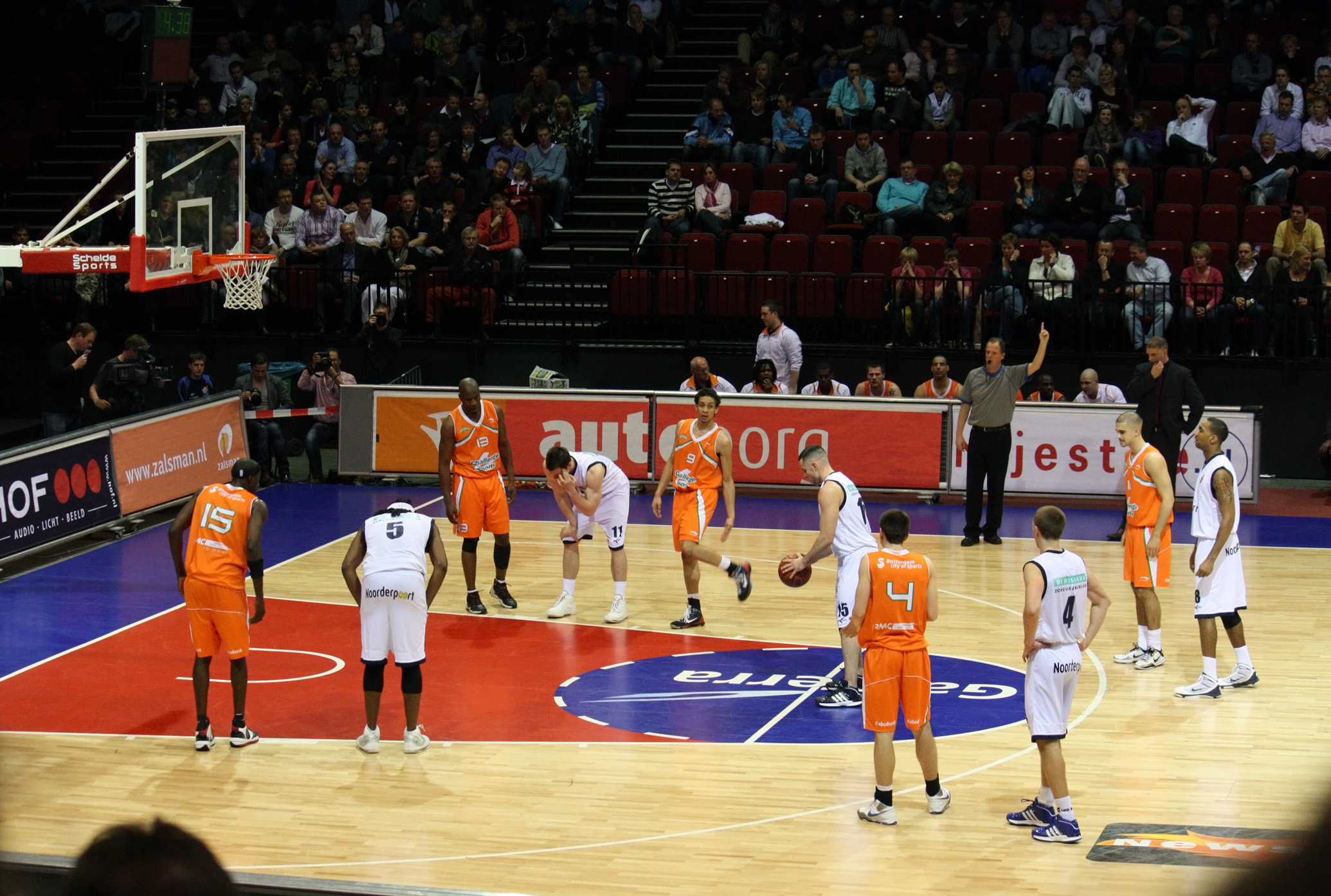 GasTerra Flames playing a home game in Martiniplaza, Groningen